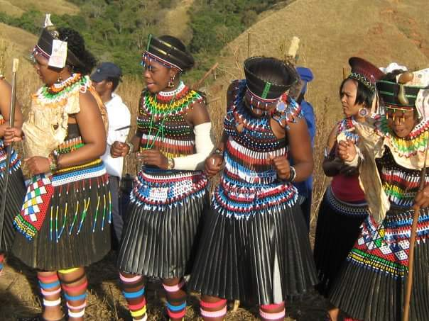 This ceremony is called Umemulo, whivj is a Zulu traditional custom where a woman is granted adulthood, paving way for her to get married if she so desires. This particular event was for 3 women. This is an image of music and dance from South Africa